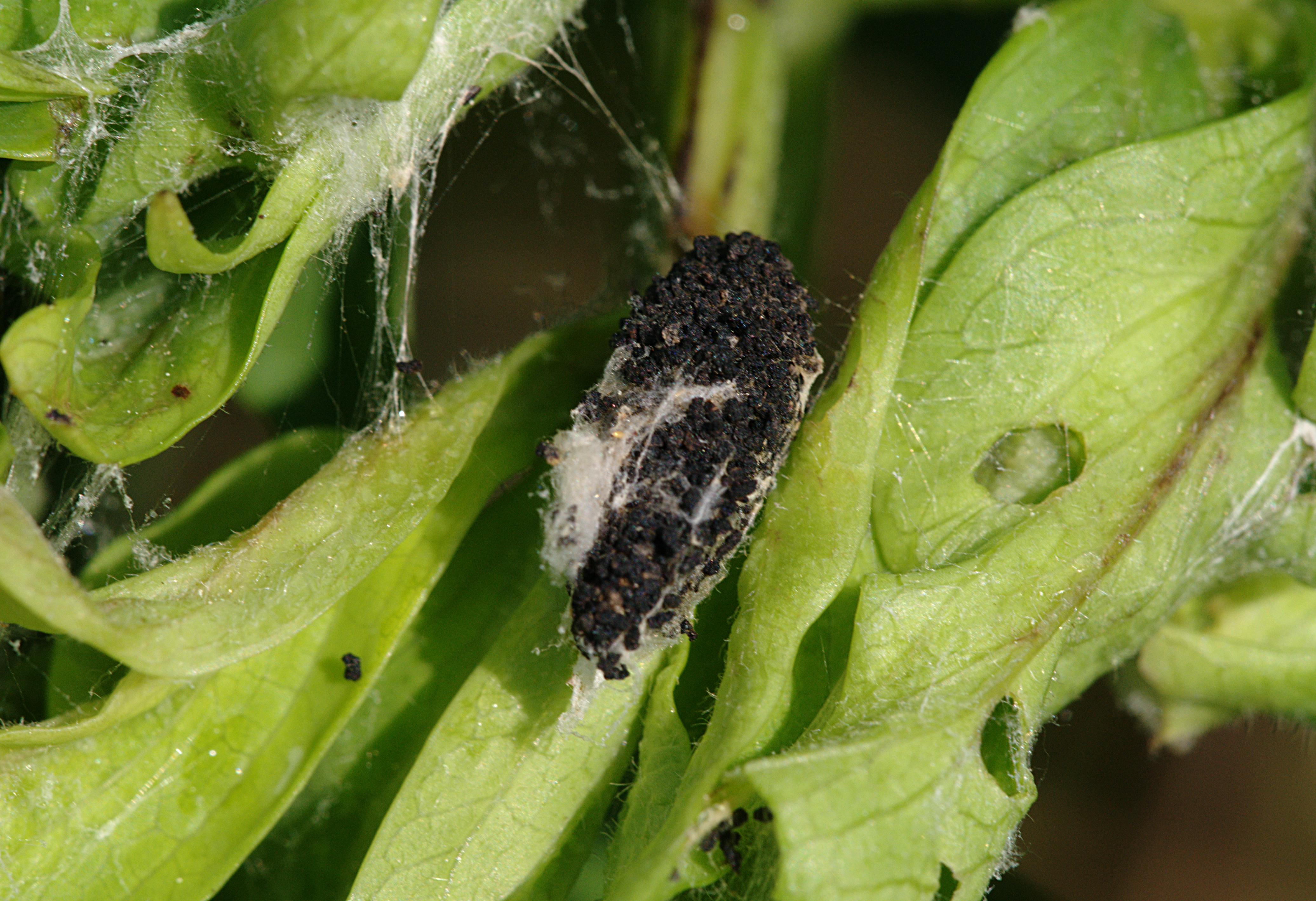 Pelatea klugiana, puppa Location: Podgorje, Slovenia 8 EX DG APO IF Makro f/9 Film / Speed: ISO 320 Comment: identification: Stanislav Gomboc